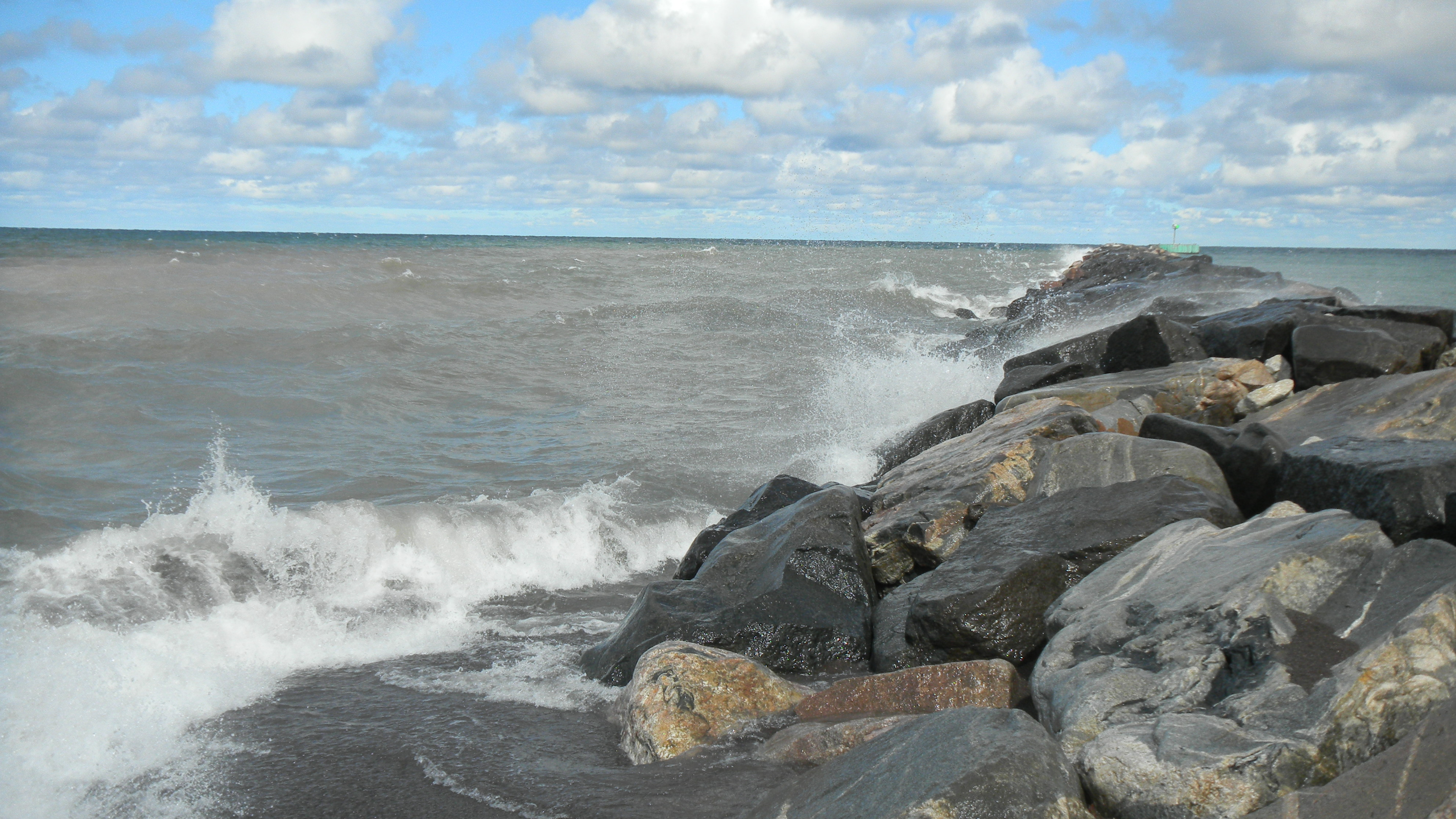 This is the southern half of the rock jetty located at the north entrance to the Keweenaw Waterway next to Stanton Township Park. The black beach is made up of imported stamp sand from the copper mines in the region. In local parlance this beach is known as The Breakers. To the left is Lake Superior, to the right of the jetty is the Keweenaw Waterway.